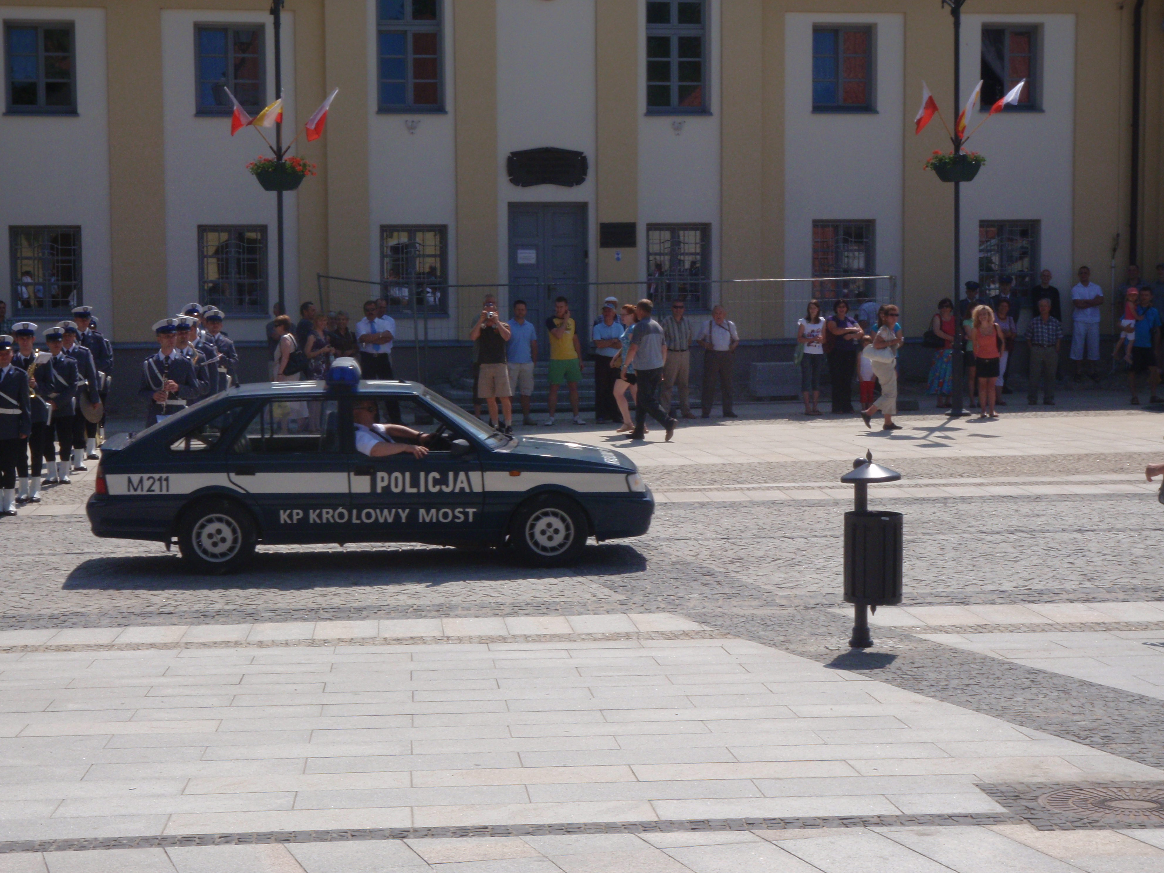 Last Police Polonez in Podlaskie Voievodeship, during Police Day in Białystok. Inscription "KP KRÓLOWY MOST" is occasional only (a reference to a popular Polish movie "U Pana Boga za piecem", taking place in Podlaskie Voievodeship).